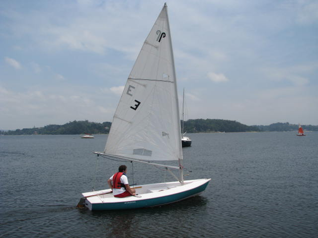 Veleiro Dingue, fabricado pela Holos do Brasil